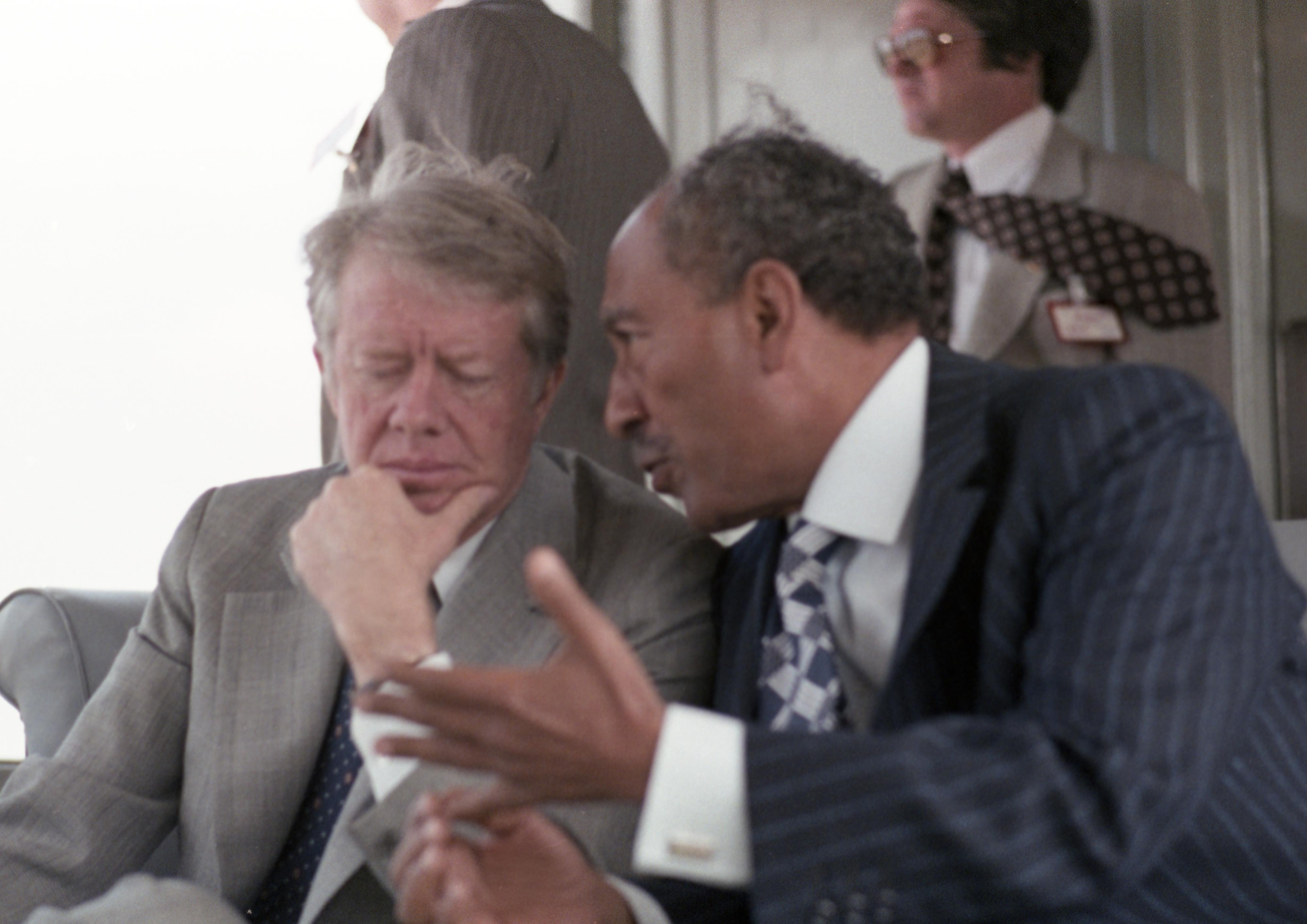 Photo courtesy of Jimmy Carter Library